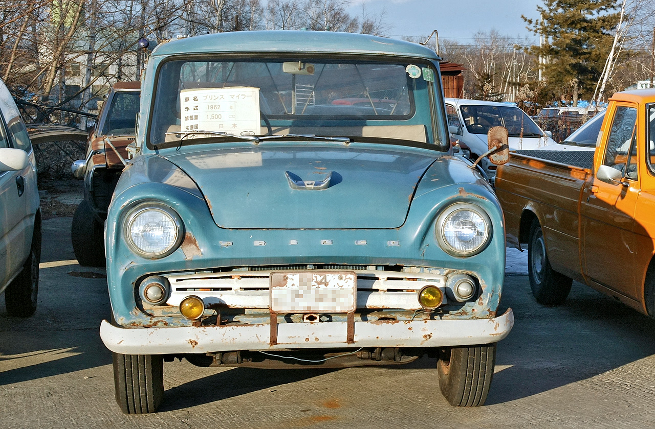 1962 Prince Light Miler 1500, 1.25 tonner.